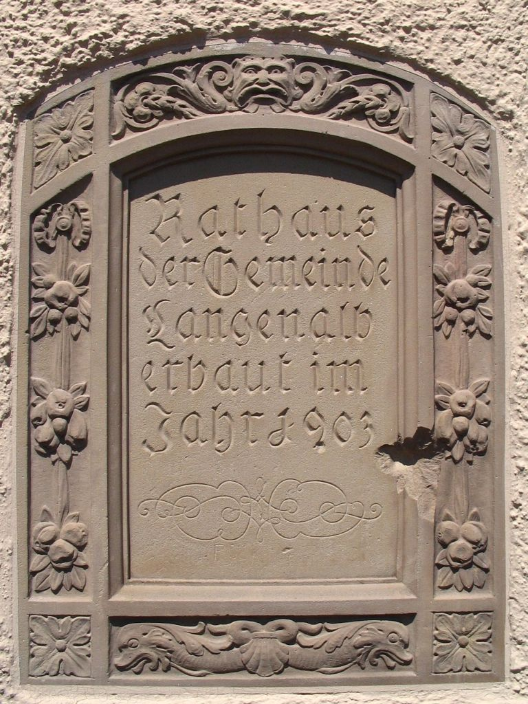 Memorial stone at the town-hall of Langenalb in Straubenhardt, Germany